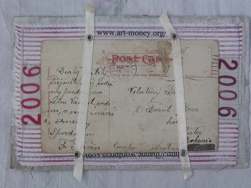 One Artmoney